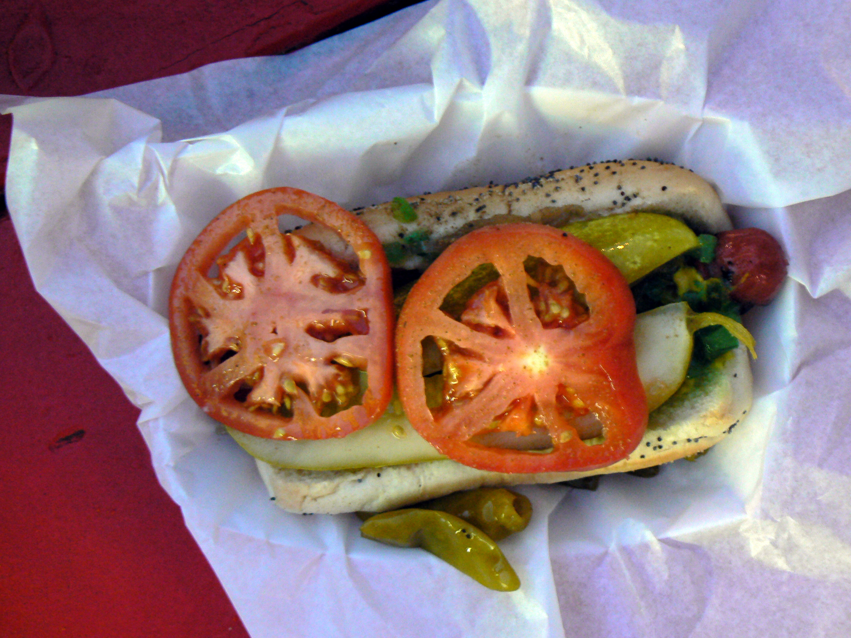 At the Wiener Circle, on Clark.